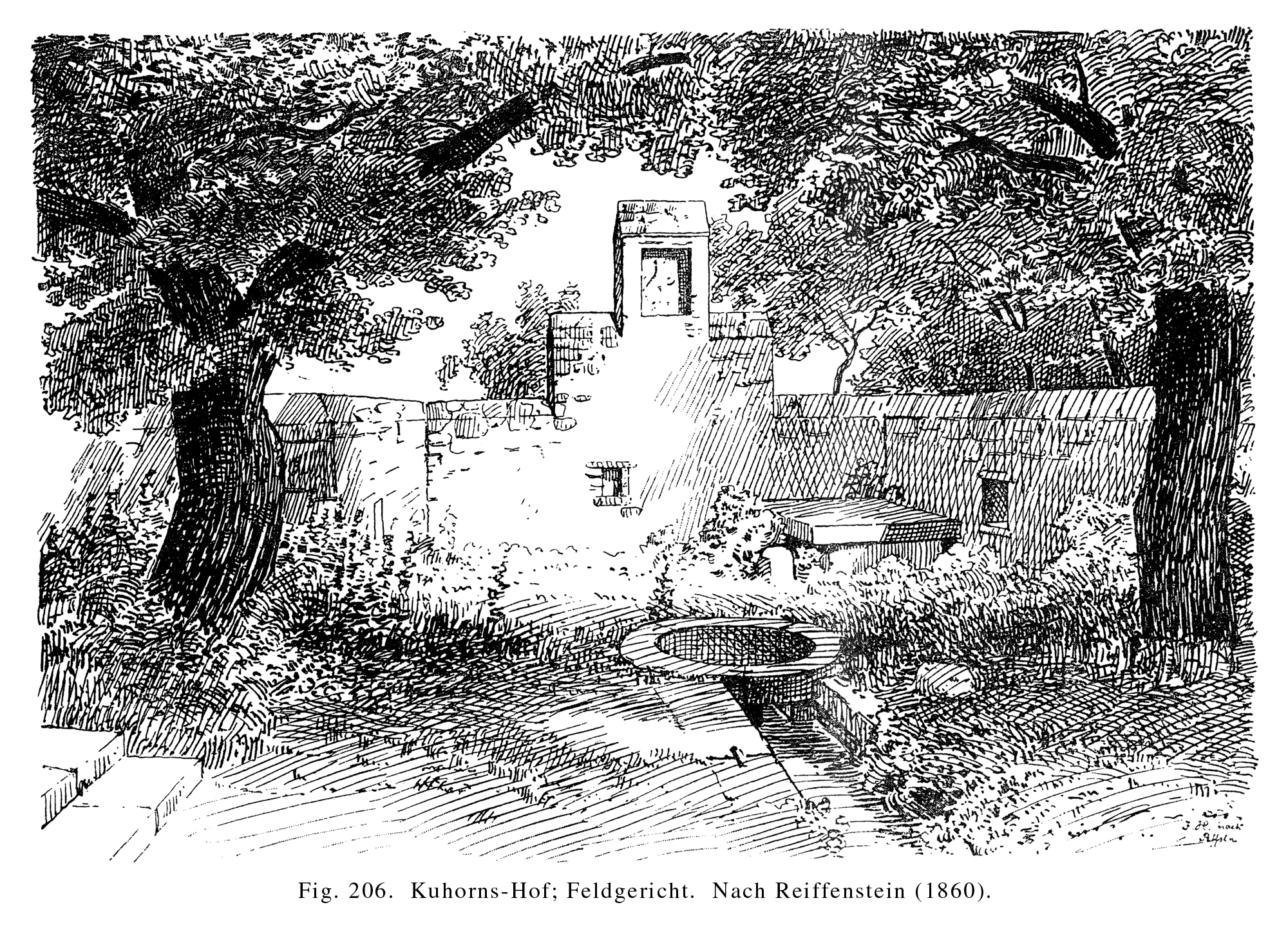 Frankfurt on the Main: Kuehhornshof, field court